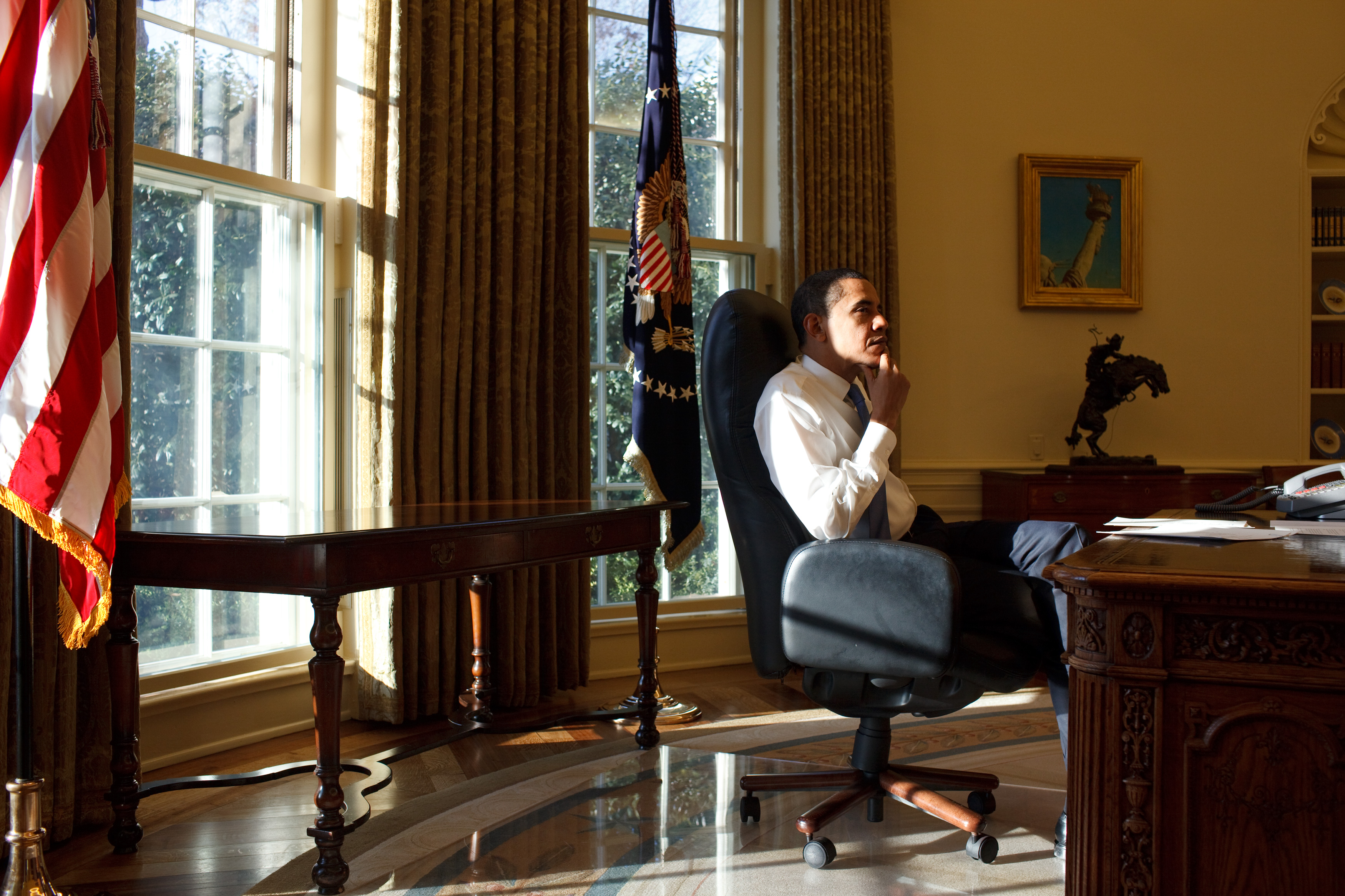 President Barack Obama in the Oval Office on his first day in office 1/21/09. Official White House Photo by Pete Souza.